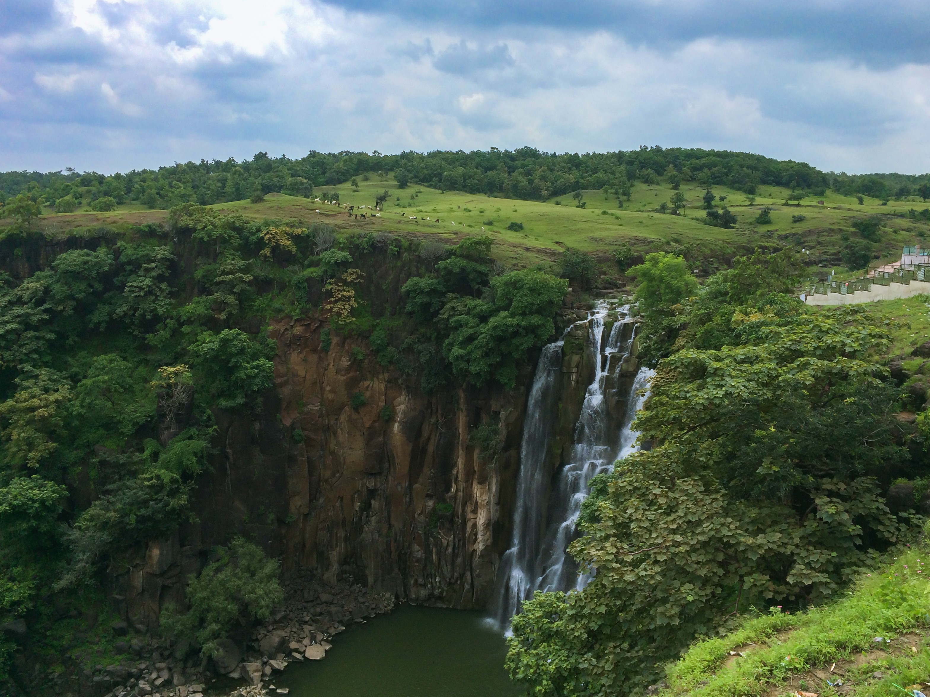 Patalpani Waterfalls in Mhow, Madhya Pradesh